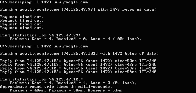 A command prompt showing a server denying a ping request based on size.